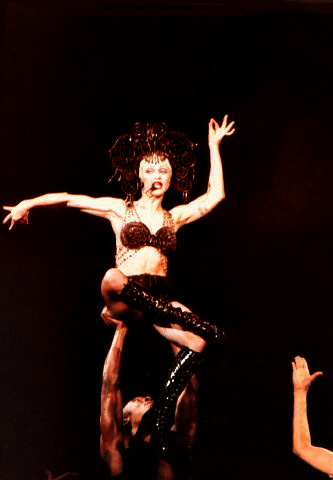 Photo taken during one of the concerts in 1993